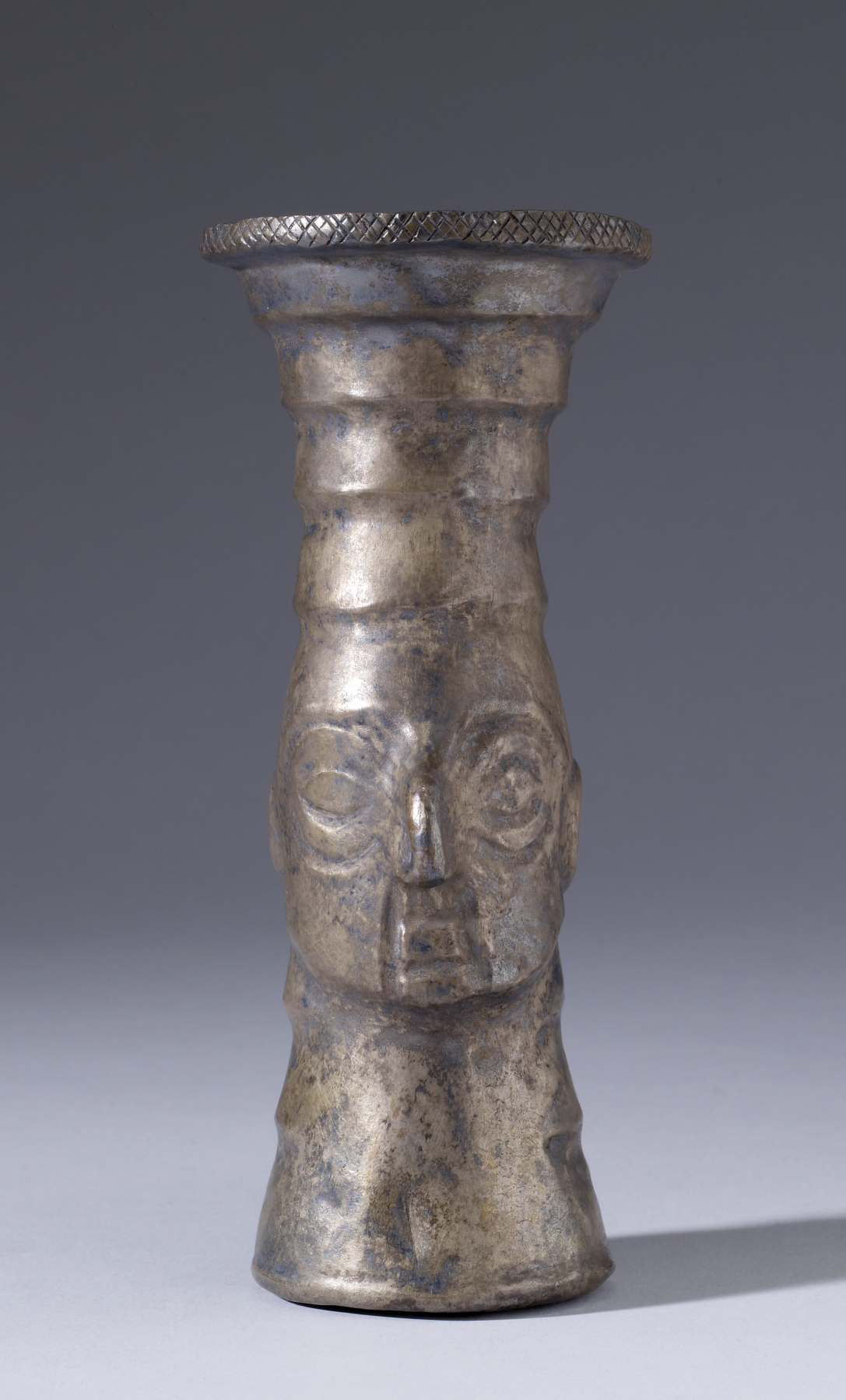 This Chimu repoussé silver beaker was made in the form of a human face, with prominent nose, eyes, and ears. The Chimu culture of the North Coast of Peru (ca. 1100-1470) was distinguished for the high quality of its metalwork, especially in silver and gold. Chimu metalworking techniques and artisans were incorporated into Inka Empire at about 1470, when they were conquered by the armies of Tupac Inka Yupanqui. Chimu beakers were made by hammering the silver (or gold) over a wooden form, and then soldering the joints. They are usually explained by referring to Inka rituals of exchanging and drinking corn beer from such vessels, which they called "keros" (or "qeros"). Most surviving examples of Inka "keros" are wood, but we know that the highest status individuals drank from gold and silver vessels, like this example.